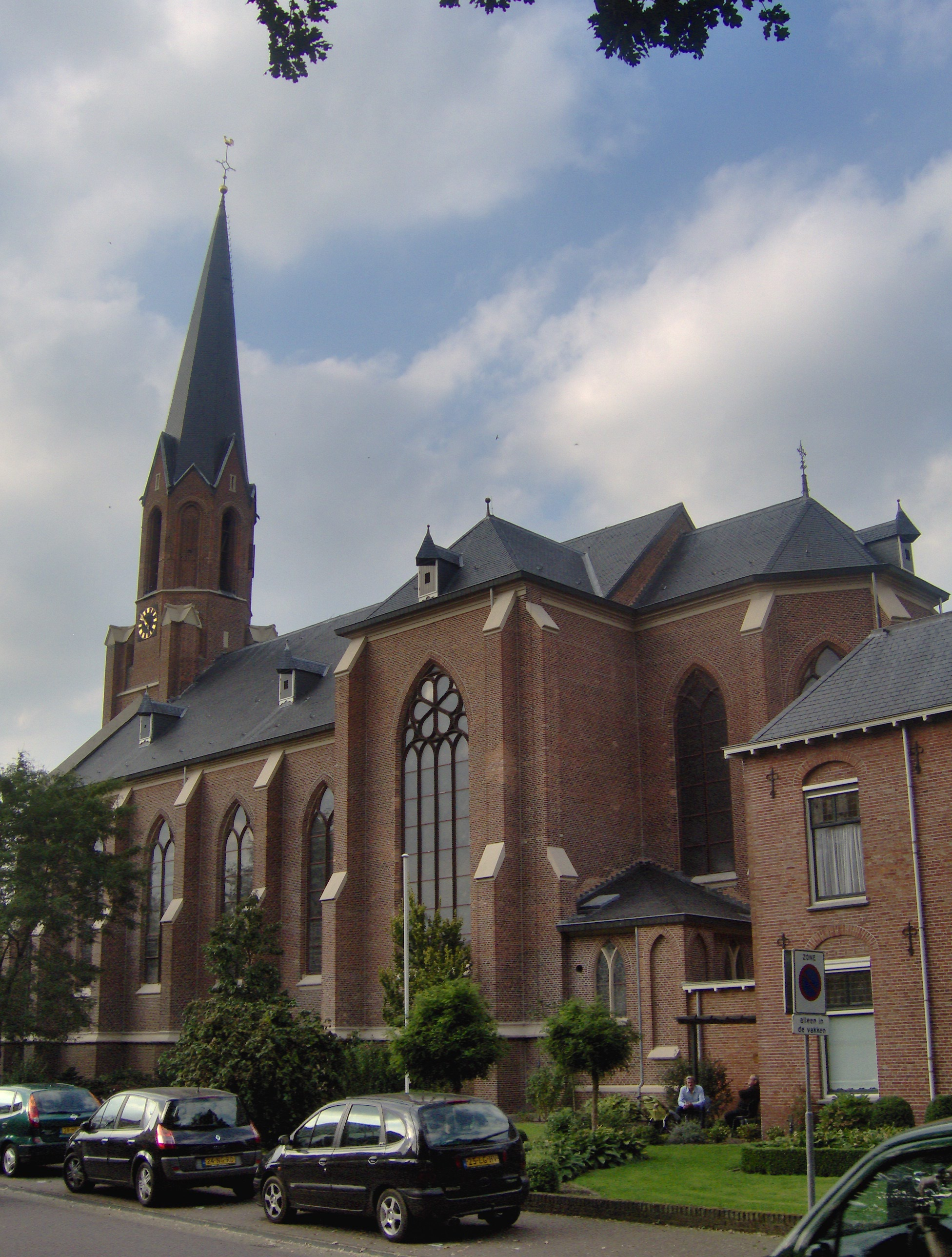 The Roman Catholic Church of Vasse in the municipality of Tubbergen, Overijssel, The Netherlands.